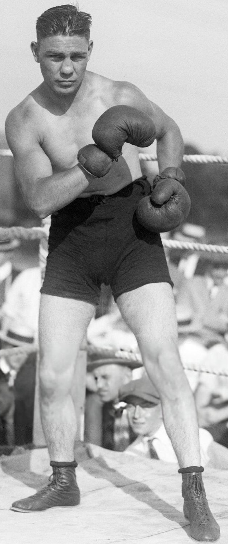 Boxer Harry Greb in fighting pose.